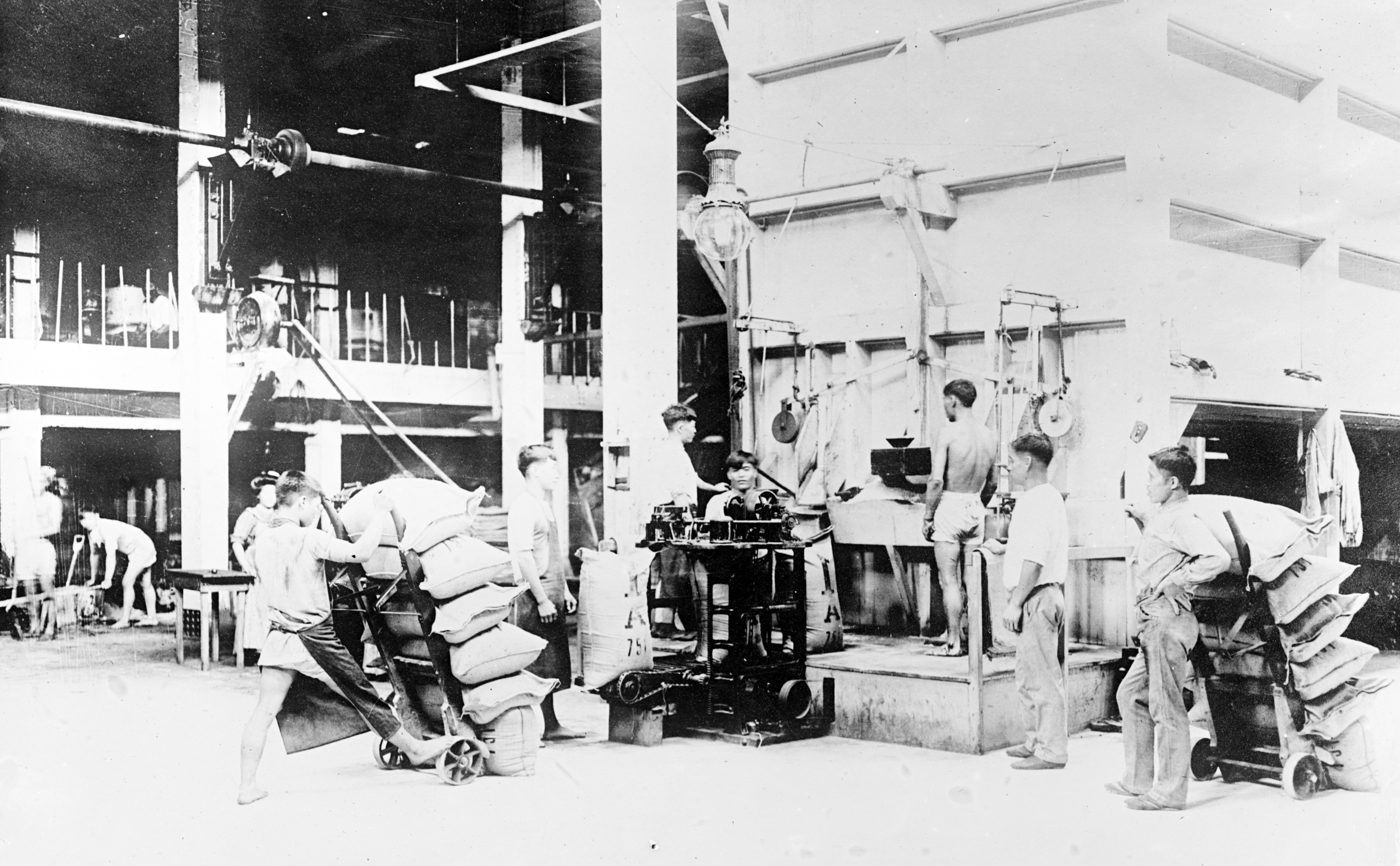 Information from source: TITLE: Filling, weighing and sewing sacks of raw sugar at Plantation mill, Hawaiian Islands CALL NUMBER: LC-F82- 10252[P&P] REPRODUCTION NUMBER: LC-DIG-npcc-30938 (digital file from original photo) RIGHTS INFORMATION: No known restrictions on publication. MEDIUM: 1 negative : glass ; 8 x 6 in. CREATED/PUBLISHED: [between 1910 and 1920] NOTES: Title from unverified data provided by the National Photo Company on the negative or negative sleeve. Date from negatives in same range. Gift; Herbert A. French; 1947. This glass negative might show streaks and other blemishes resulting from a natural deterioration in the original coatings. Temp. note: Batch seven. SUBJECTS: United States--Hawaii. FORMAT: Glass negatives. PART OF: National Photo Company Collection (Library of Congress) REPOSITORY: Library of Congress Prints and Photographs Division Washington, D.C. 20540 USA DIGITAL ID: (digital file from original photo) npcc 30938 CONTROL #: npc2008011439